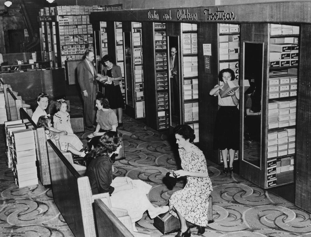 Shoe department in Cribb & Foote's Ipswich store, April 1949 Customers trying on shoes in Cribb & Foote's Ipswich store, 1949. Sales assistants are providing assistance.